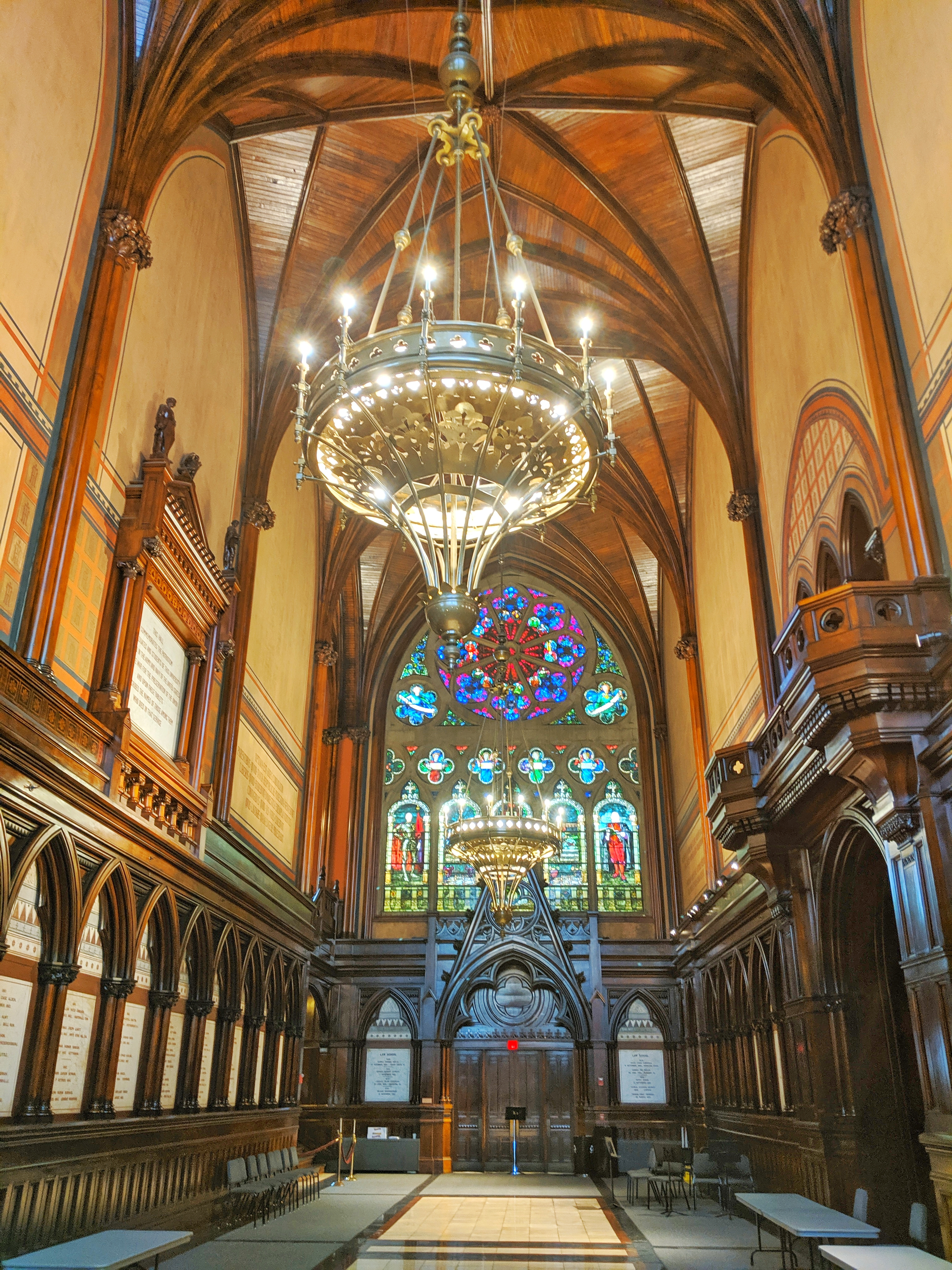 Sanders theater (Harvard)